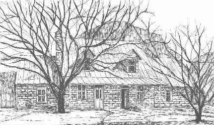 House of Nicolaus Zink, Kendall County (Texas, USA)